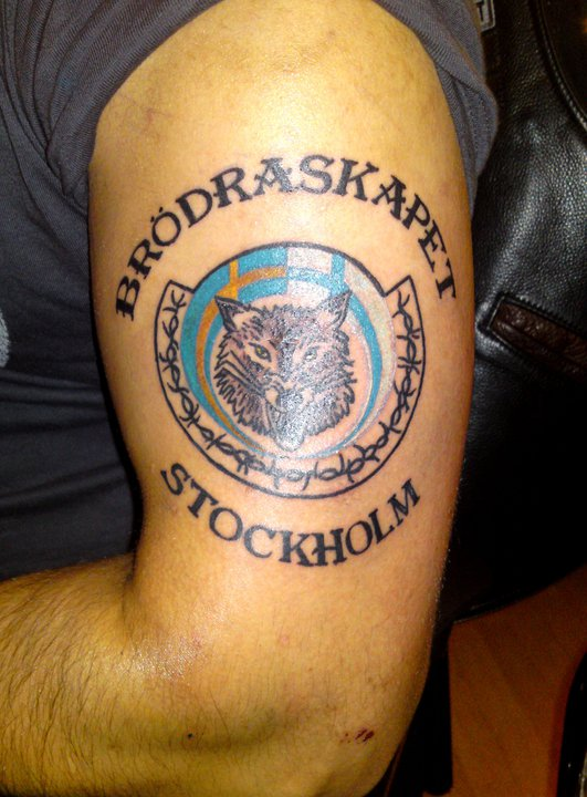 Brödraskapet "The Brotherhood" Swedens oldest prison gang